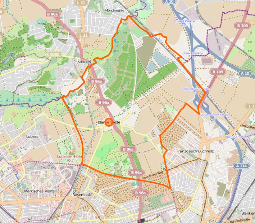 Berlin-Blankenfelde and vicinity